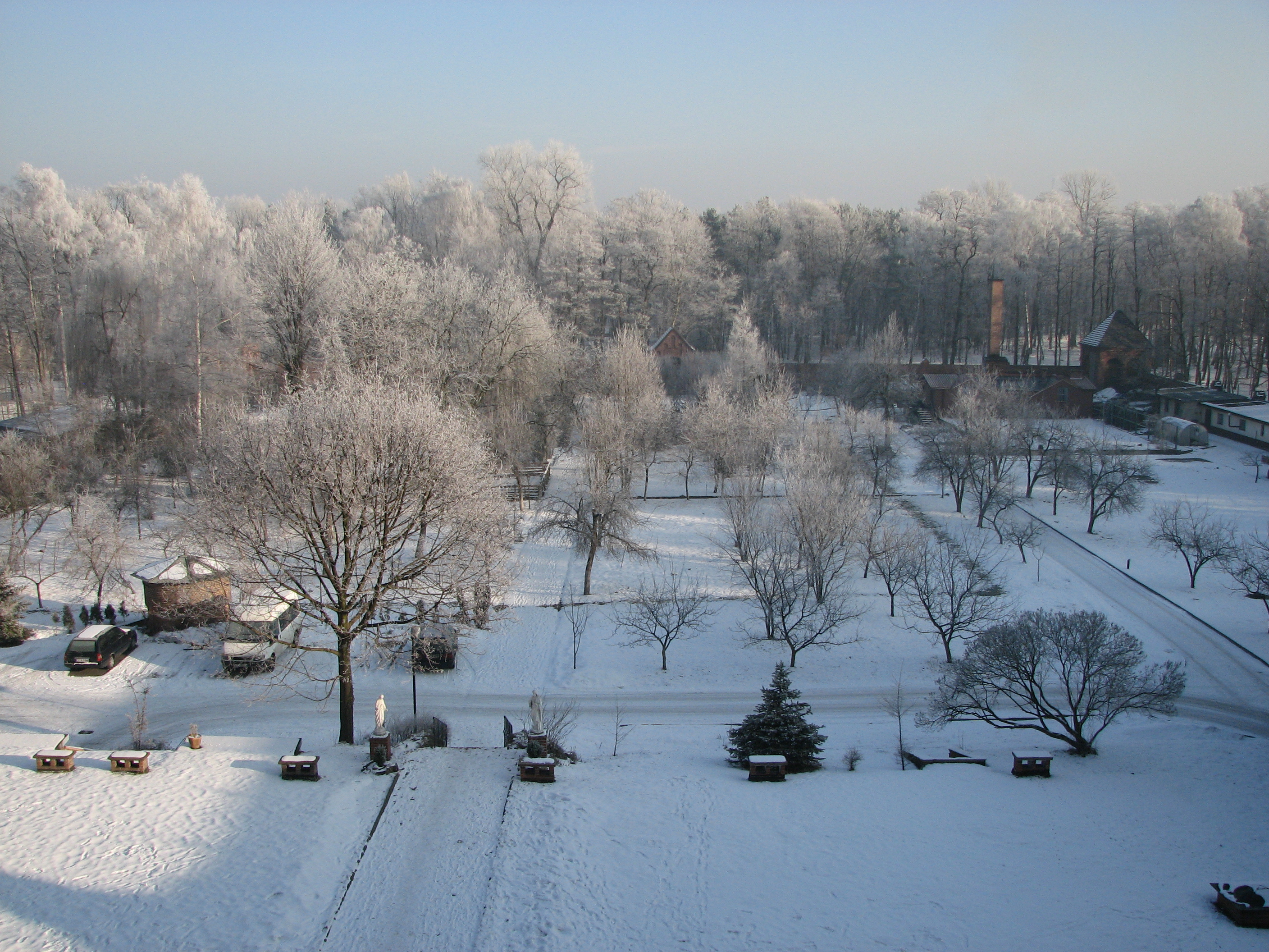 Garden of the Franciscan monastery in Katowice Panewniki, Poland